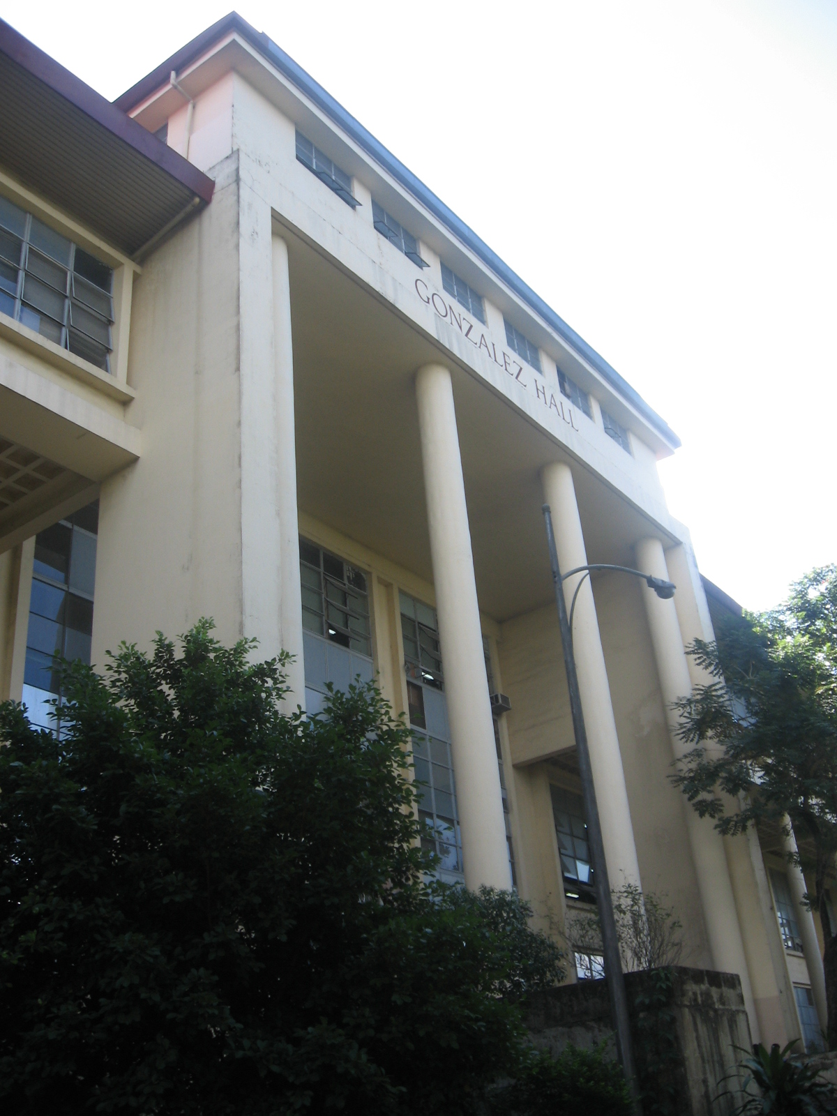 Luckyman88 Photo. Gonzalez Hall of UP Diliman. Serves as the Main Library Building. Kapampangan: Ing Gonzalez Hall king UP Diliman